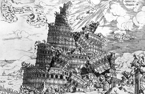 The collapse of the Tower of Babel, etching, 1547